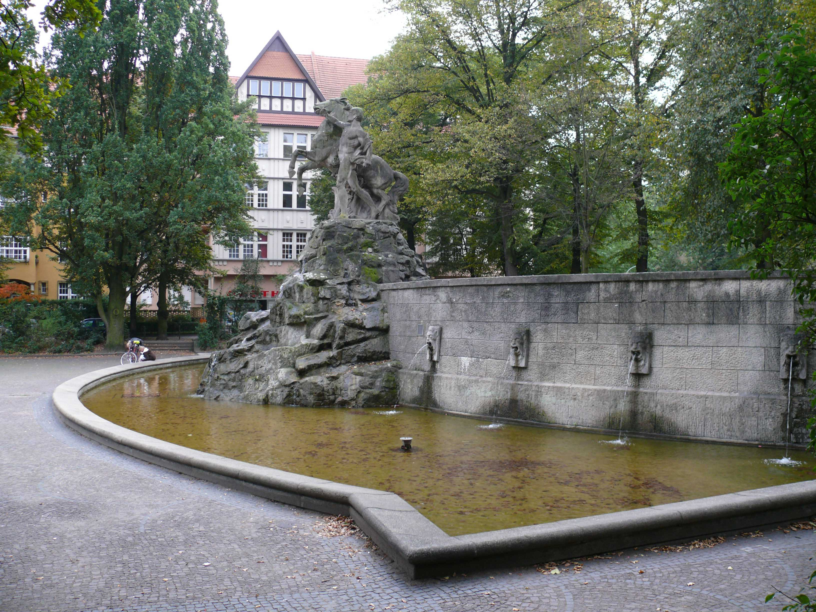 Berlin-Wilmersdorf Rüdesheimer Platz Rheingauviertel